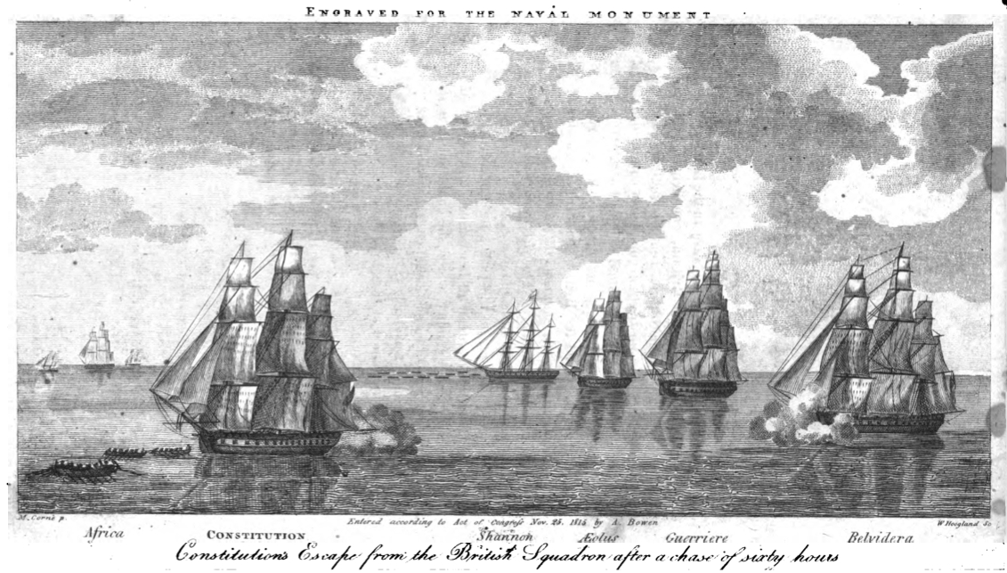 "Constitution's escape from a British squadron." Drawn by Corne, engraved by Hoogland